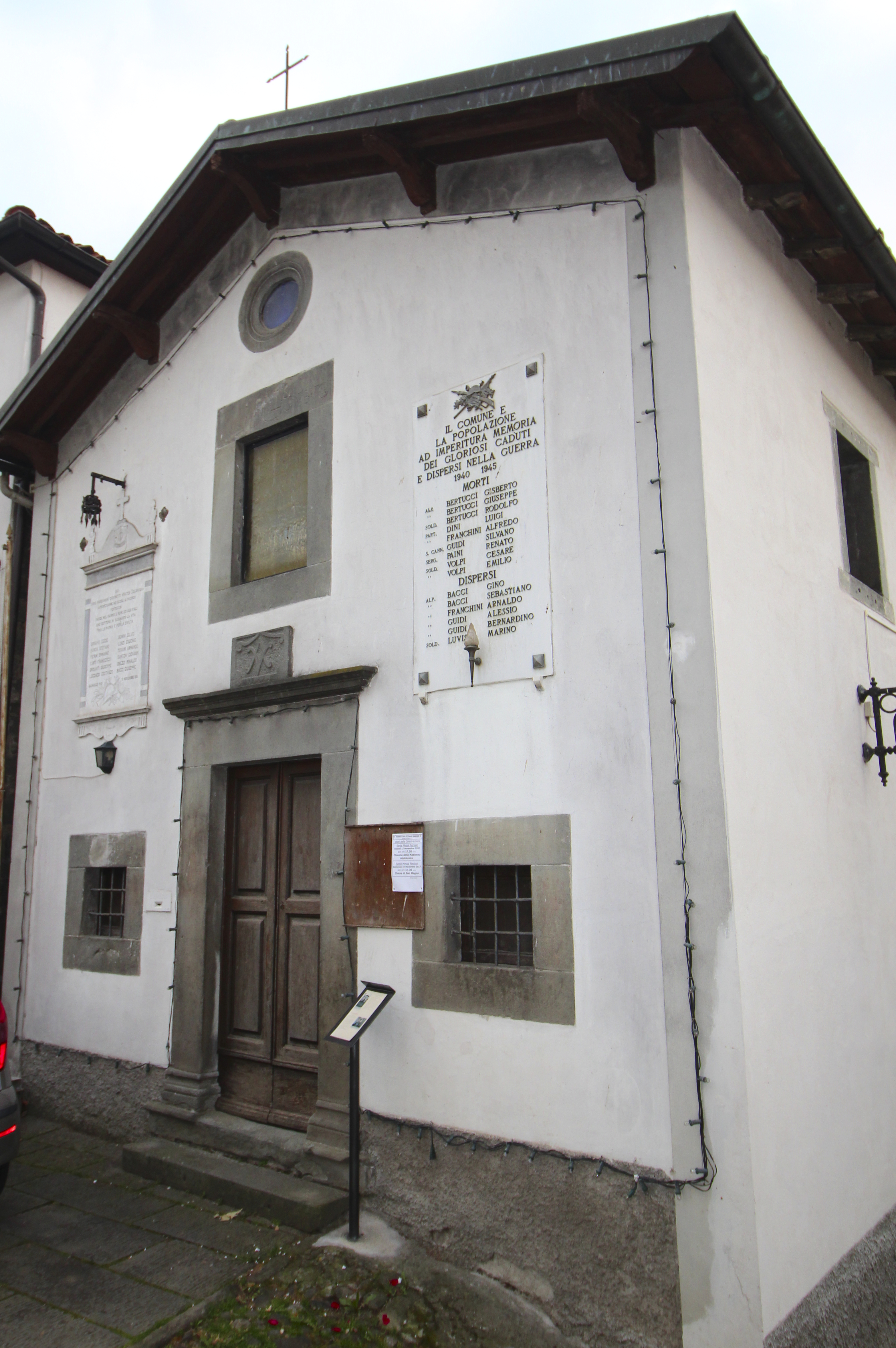 Church Madonna Addolorata, Pontecosi, hamlet of Pieve Fosciana, Garfagnana, Province of Lucca, Tuscany, Italy